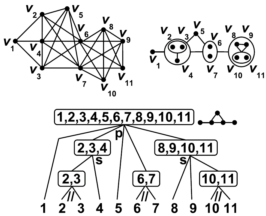 A graph, its quotient where "bags" of vertices of the graph correspond to the children of the root of the modular decomposition tree, and its full modular decomposition tree: series nodes are labeled "s", parallel nodes "//" and prime nodes "p". The graph originally appeared in Christophe Paul's habilitation thesis (figures 2.2 and 2.3)